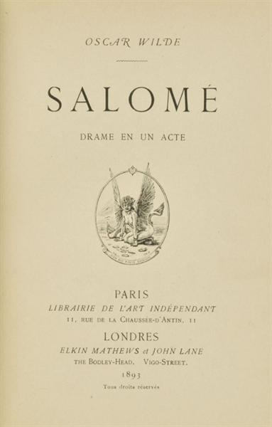 Title page of french first edition. Paris - Librairie de l'Art Indépendant / London - Elkin Matthews & John Lane 1893